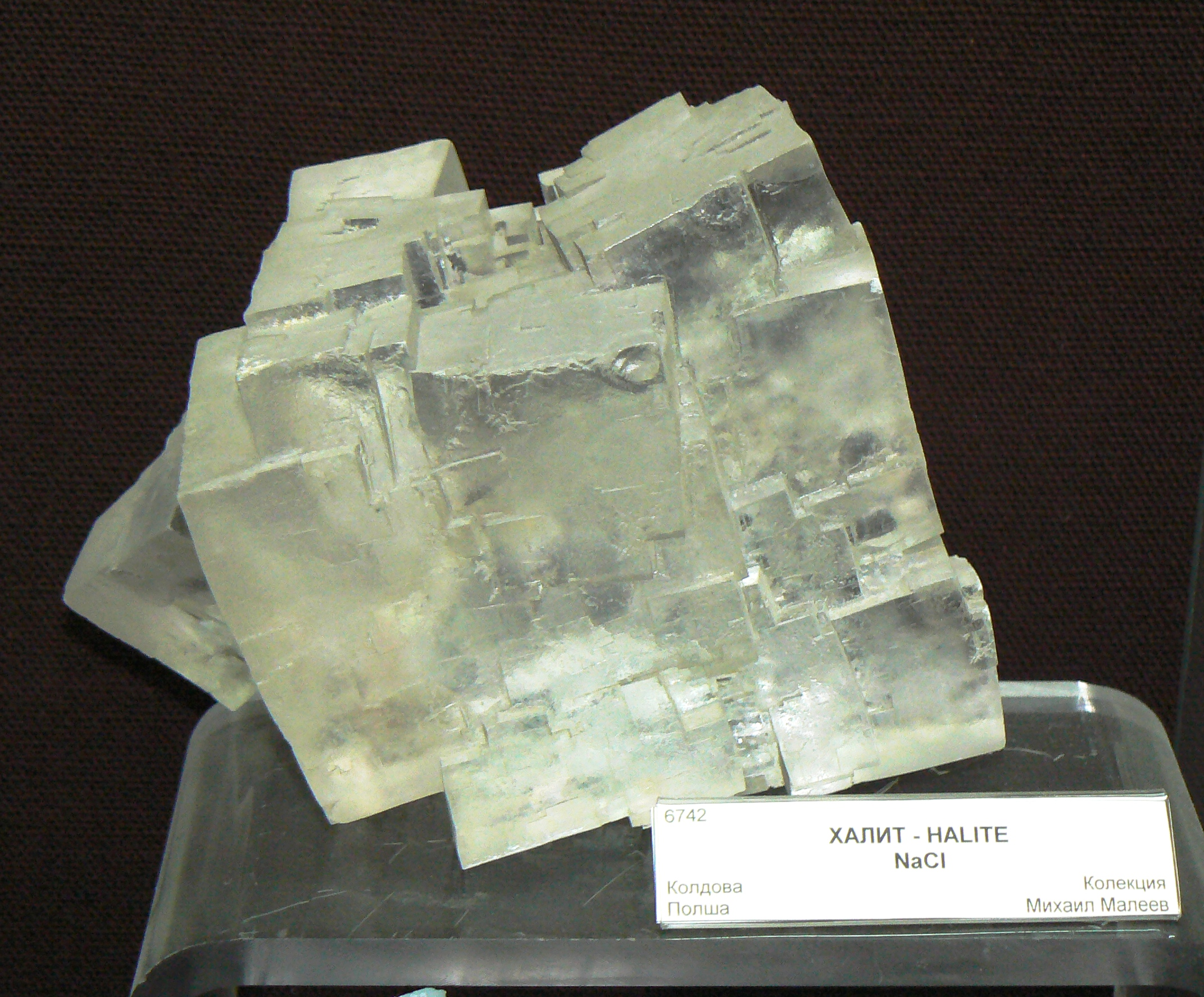 Mineral specimen of Halite. Discovered in Kłodawa, Poland. Exhibit of the "Earth and Man" Museum in Sofia, Bulgaria.